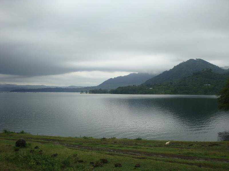 Wadaslintang Dam, located in Wadaslintang Subdistrict, Wonosobo Regency, Central Java, Indonesia